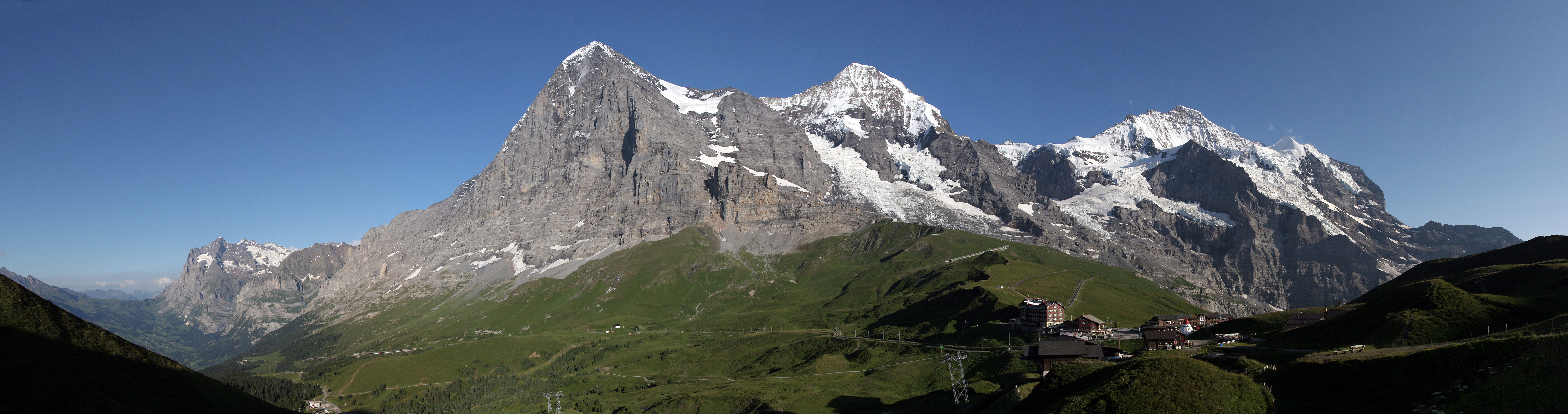 180° view from Kleine Scheidegg.